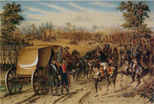 A postcard dated 1910 illustrating the capture of Padre Hidalgo and General Allende at the Wells of Bajan in 1811.